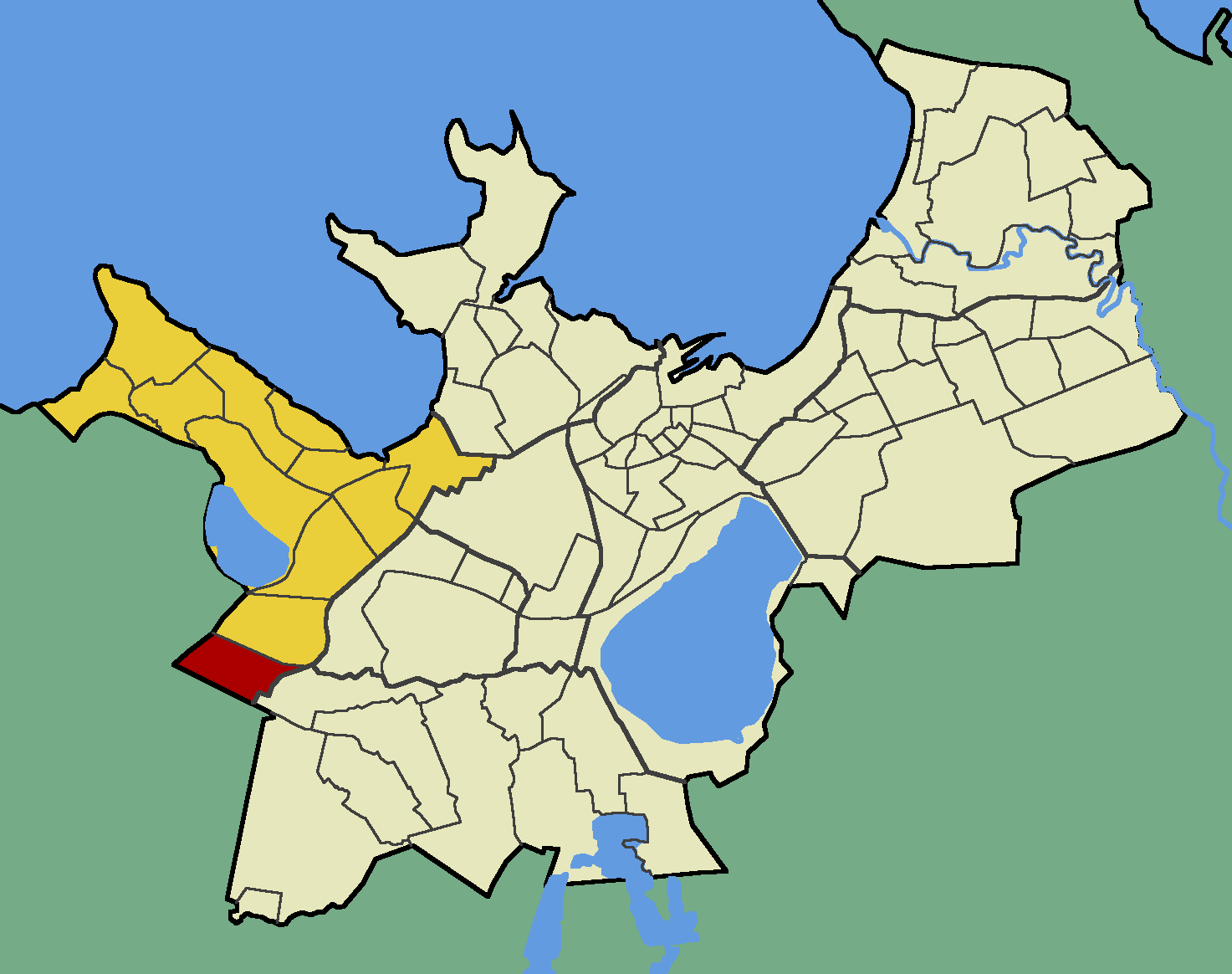 Map of Tallinn (Estonia) with borders of the quarters, Haabersti district and Mäeküla quarter emphasised